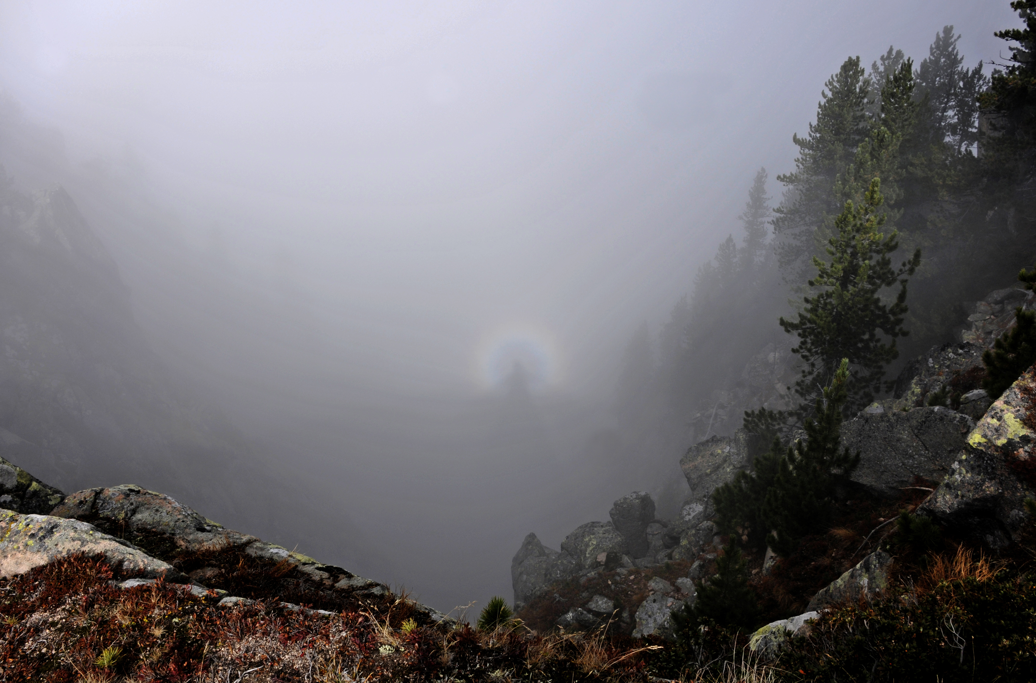 Backscatter in upslope fog on Resciesa in Gröden Elevation 2255m